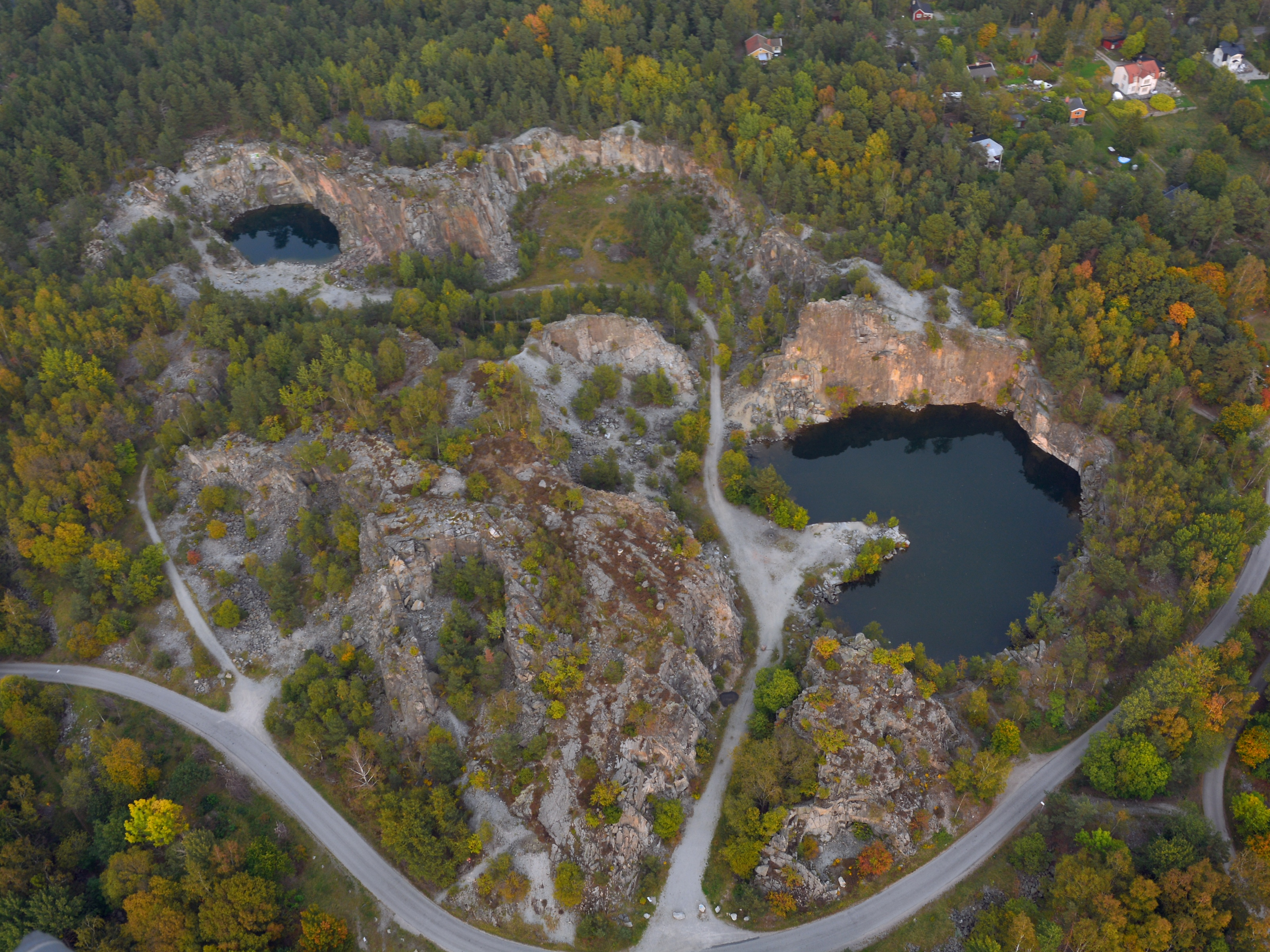 Quarry in Stenhamra on Färingsö in Ekerö municipality, Sweden.